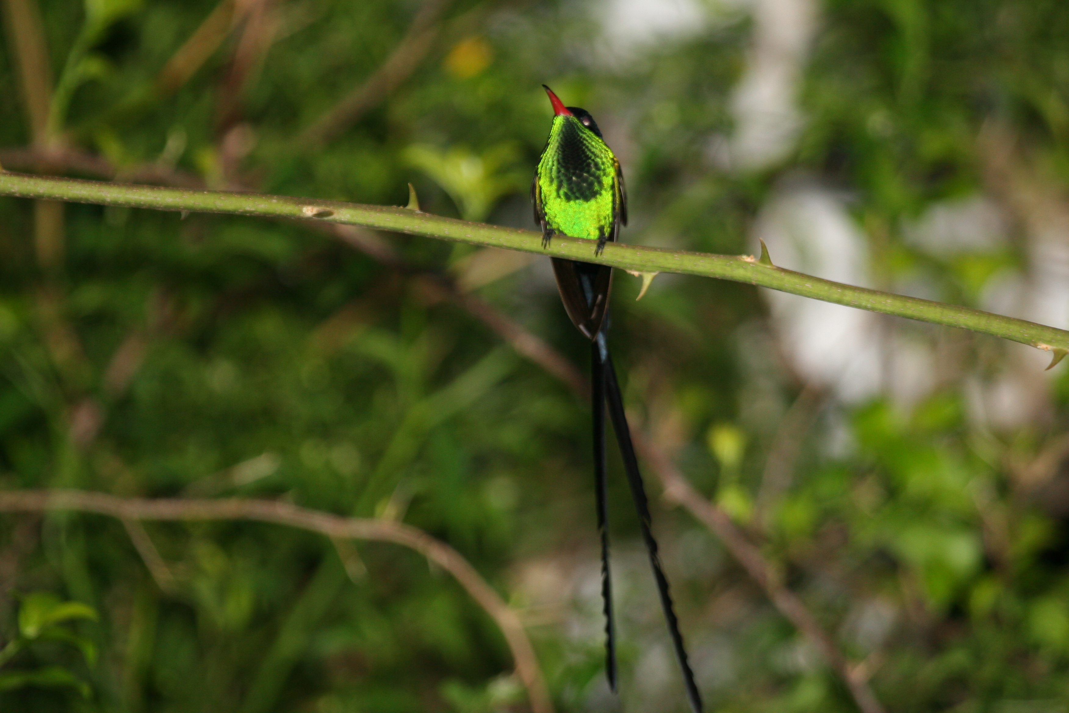 Red-billed Streamertail (Trochilus polytmus) Dysmorodrepanis 12:45, 29 May 2008 (UTC)